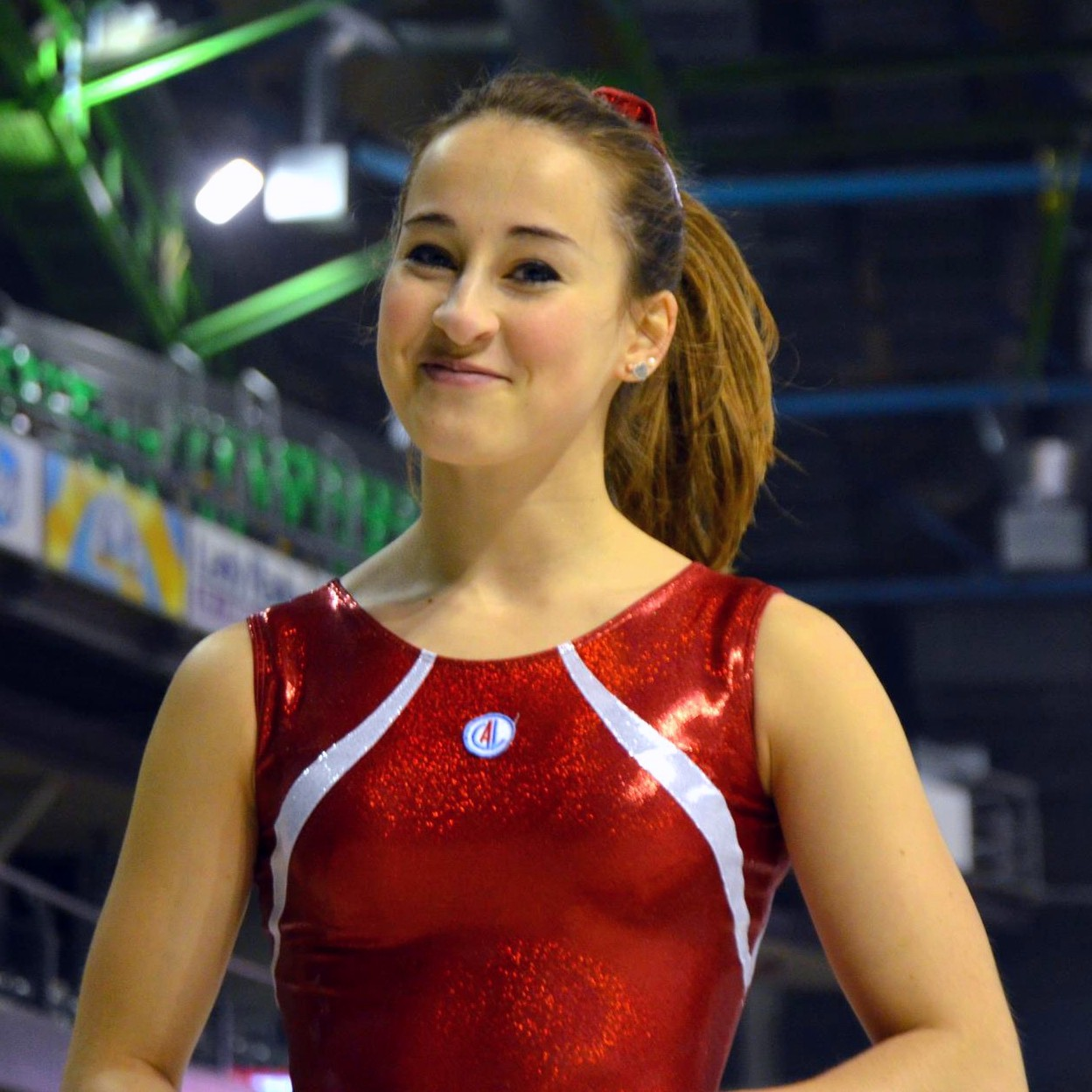 Carlotta Ferlito. Florence, 6th april 2013